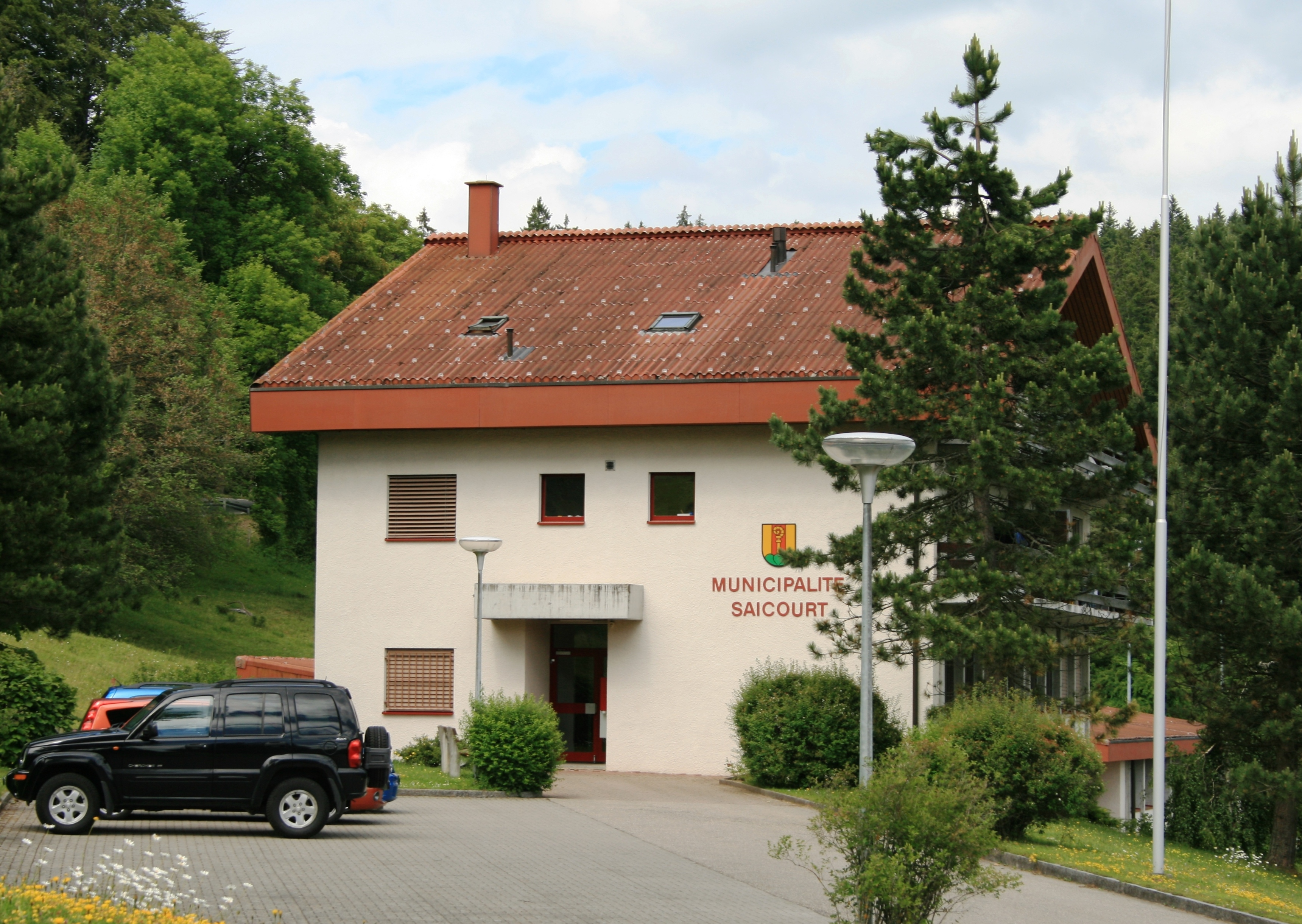 Town hall of Saicourt BE, Switzerland